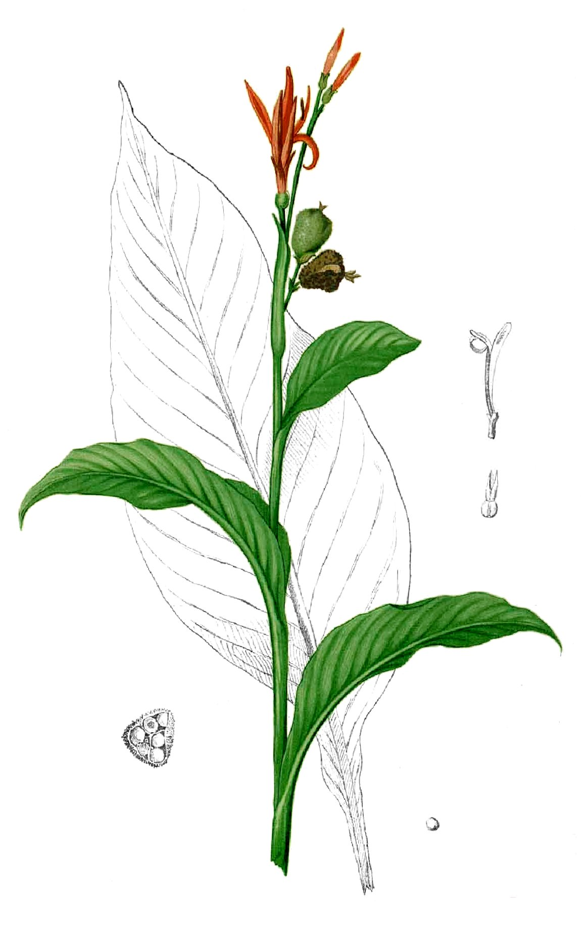 Canna indica Plate from book